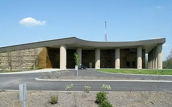 creationwiki public domain